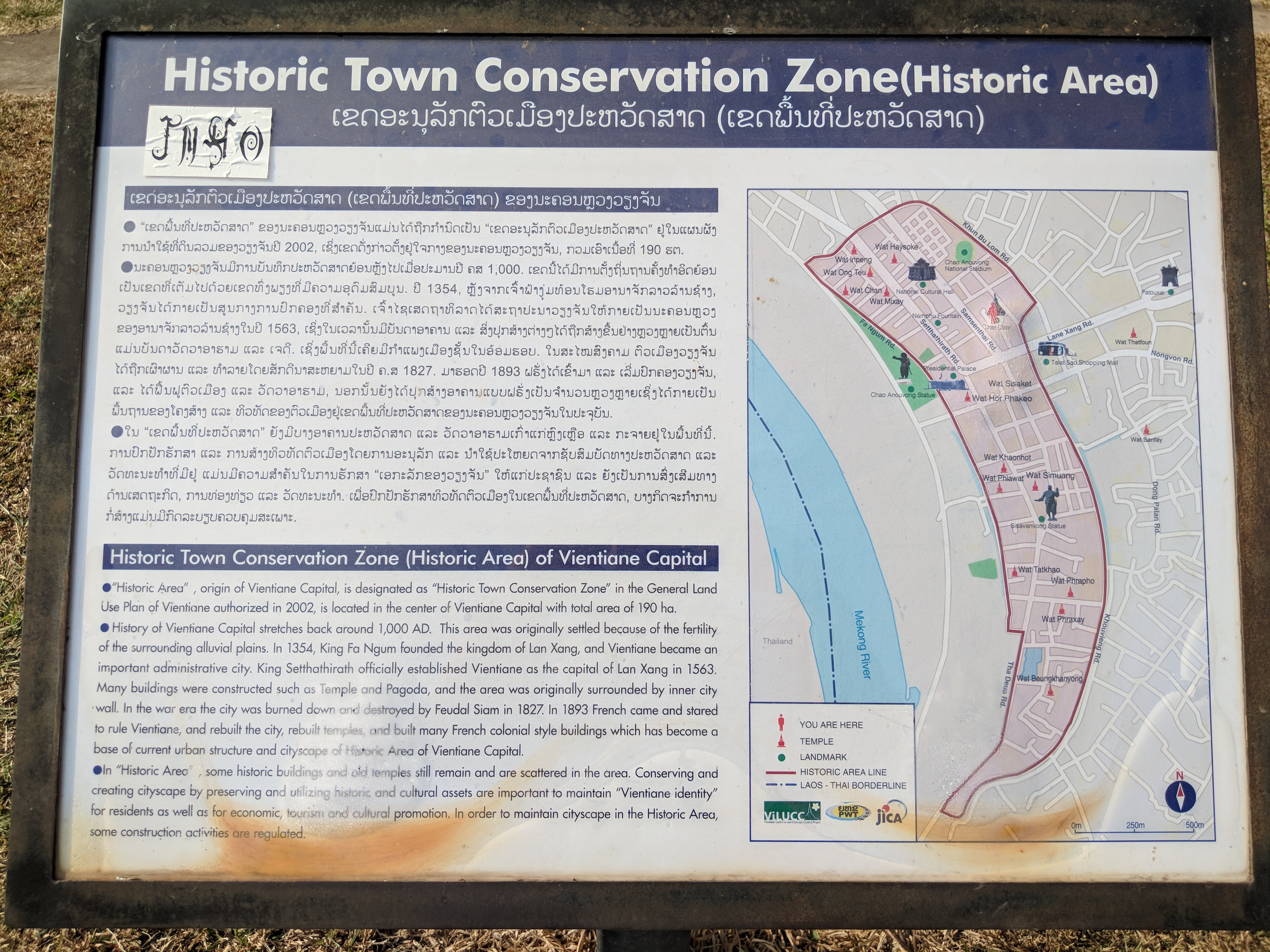 Historic Zone Sign in Vientiane, Laos